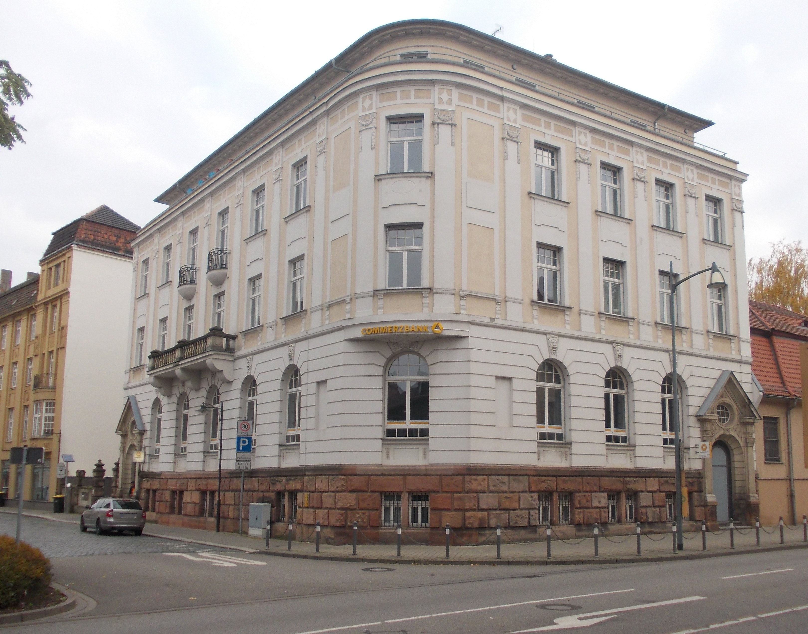 No. 14, Friedrichsstrasse in Weissenfels (district: Burgenlandkreis, Saxony-Anhalt)